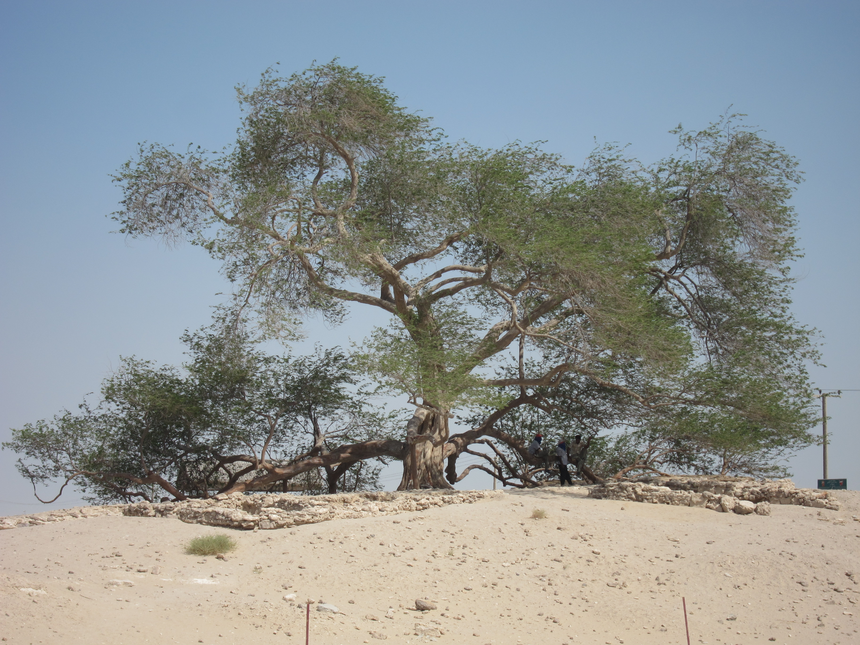 Tree of Life, Bahrain - ജീവന്റെ മരം, ബഹ്റൈൻ ബഹ്‌റൈനിലെ ജബൽ ദുക്കാൻ പ്രദേശത്ത് നിന്ന് രണ്ട് കിലോമീറ്റർ (1.2 മൈൽ) ദൂരെയുള്ള മരുഭൂമിയിലാണ് ജീവന്റെ മരം (Tree of Life, Shajarat-al-Hayat) എന്ന വിശേഷണമുള്ള പ്രോസൊപിസ് സിനറാറിയ (Prosopis cineraria) എന്ന മരം നിൽക്കുന്നത്. 9.75 മീറ്റർ (32 അടി) ഉയരമുള്ള ഈ മരം 500 വർഷം പഴക്കവും 7.6 മീറ്റർ (25 അടി) ഉയരമുള്ള മൺക്കുനയിലാണ് നിൽക്കുന്നത്.